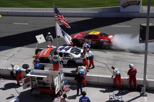 LOS ANGELES, Calif. (Sept. 4, 2004)--The Coast Guard NASCAR pit crew, from Labonte Motor Sports, refuels and replaces worn tires at on Justin LabonteÕs car during the Target House 300 race at the California Speedway Sept. 4, 2004. Slug 040904-C-1765H-340 (FR) Location LOS ANGELES, California United States Special Instructions 040904-C-1765H-340 (FR) Photographer PA3 DAVE HARDESTY Object Name TARGET HOUSE 300 NASCAR RACE (FOR RELEASE) Credit U. S. COAST GUARD (FOR RELEASE) DIGITAL Server Name cgvi.uscg.mil:80 PLS ImageID 240961 Picture Desk ImageID 055XD Committed Yes (Platter 6A) Database Photo